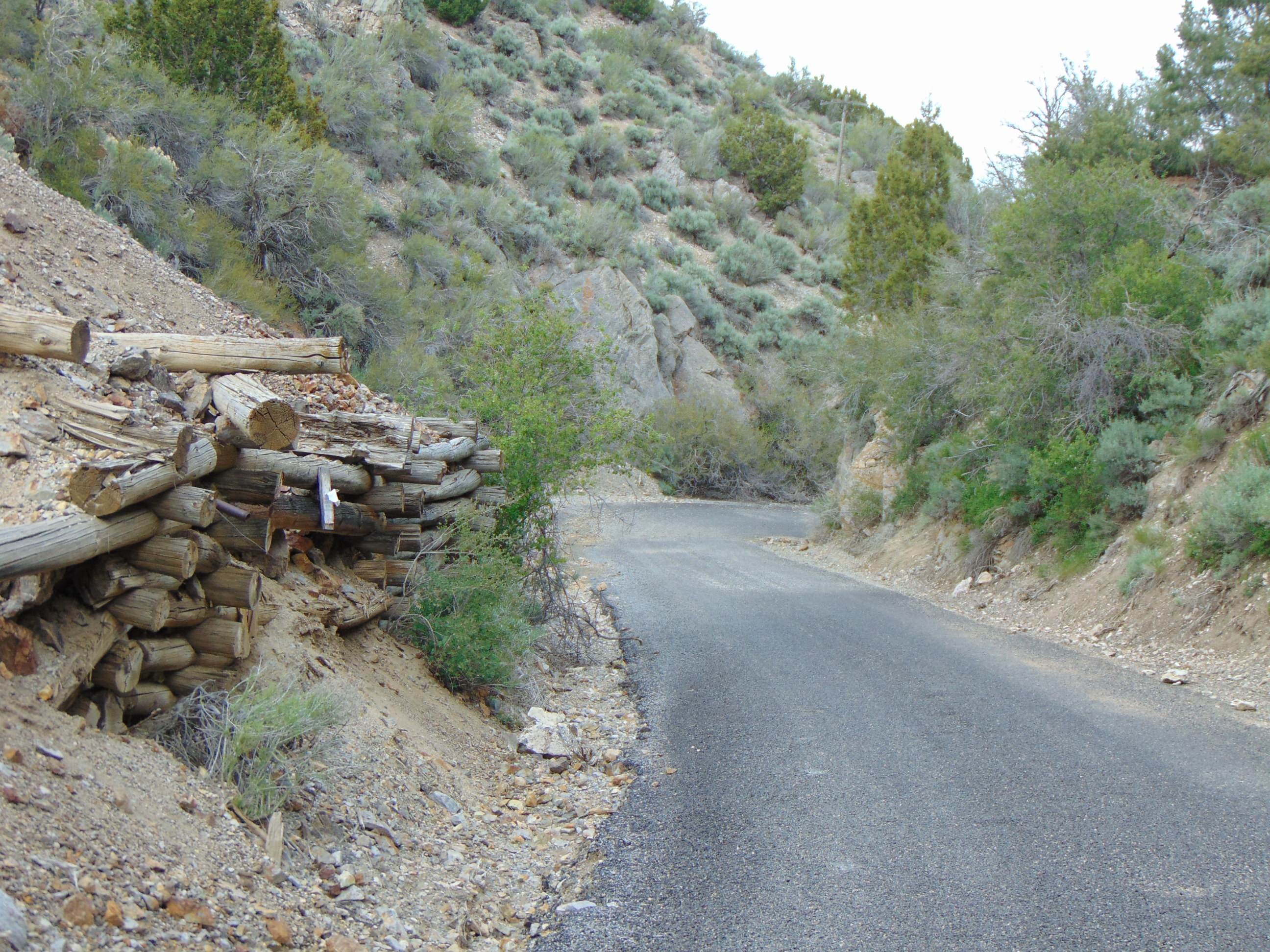 Looking northeast along Dividend Road (formerly Utah State Route 159) from about what would be mile marker 2.4 in the East Tintic Mountains in Dividend Utah, May 2016